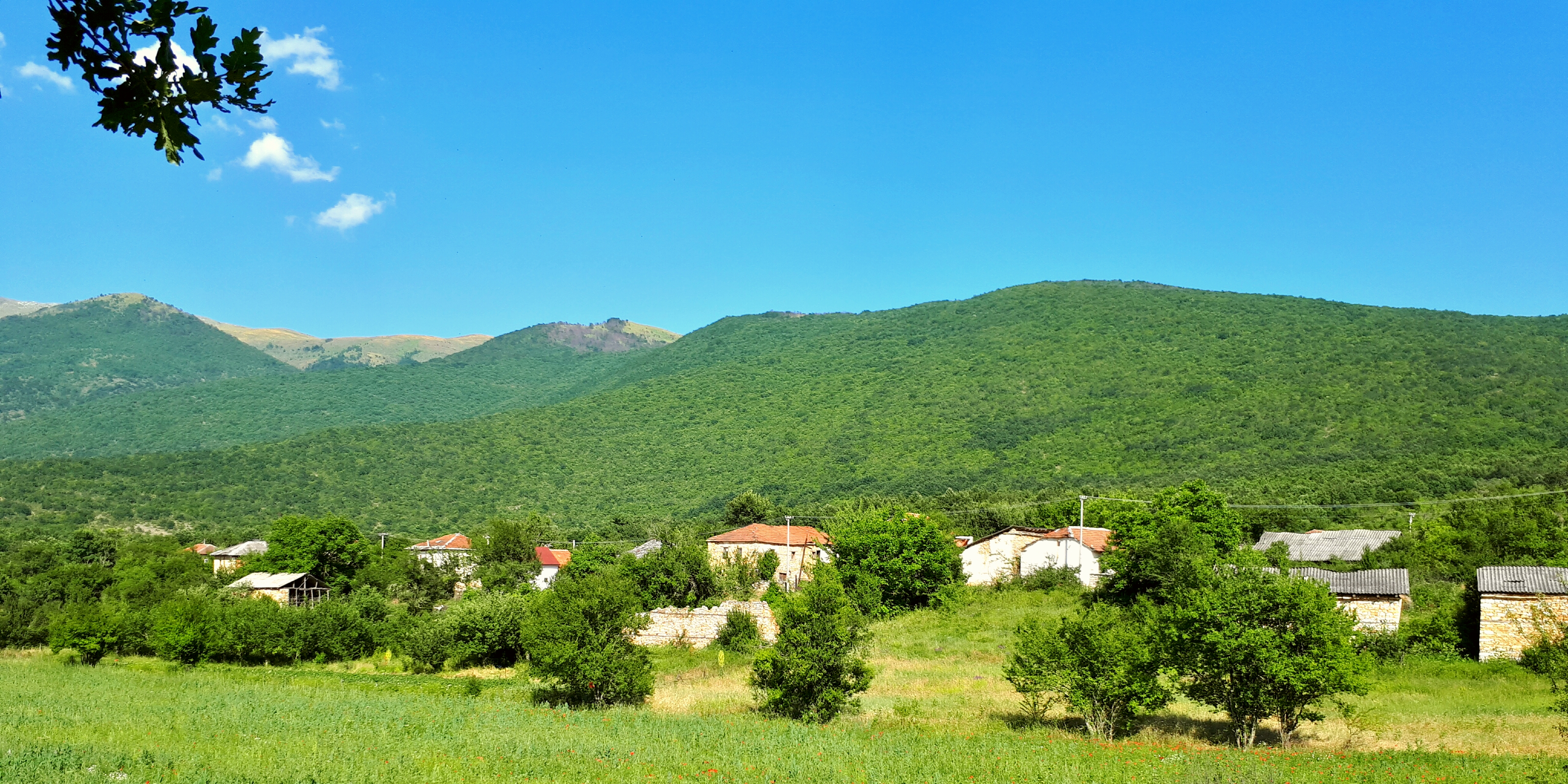 View of the village Lokvica